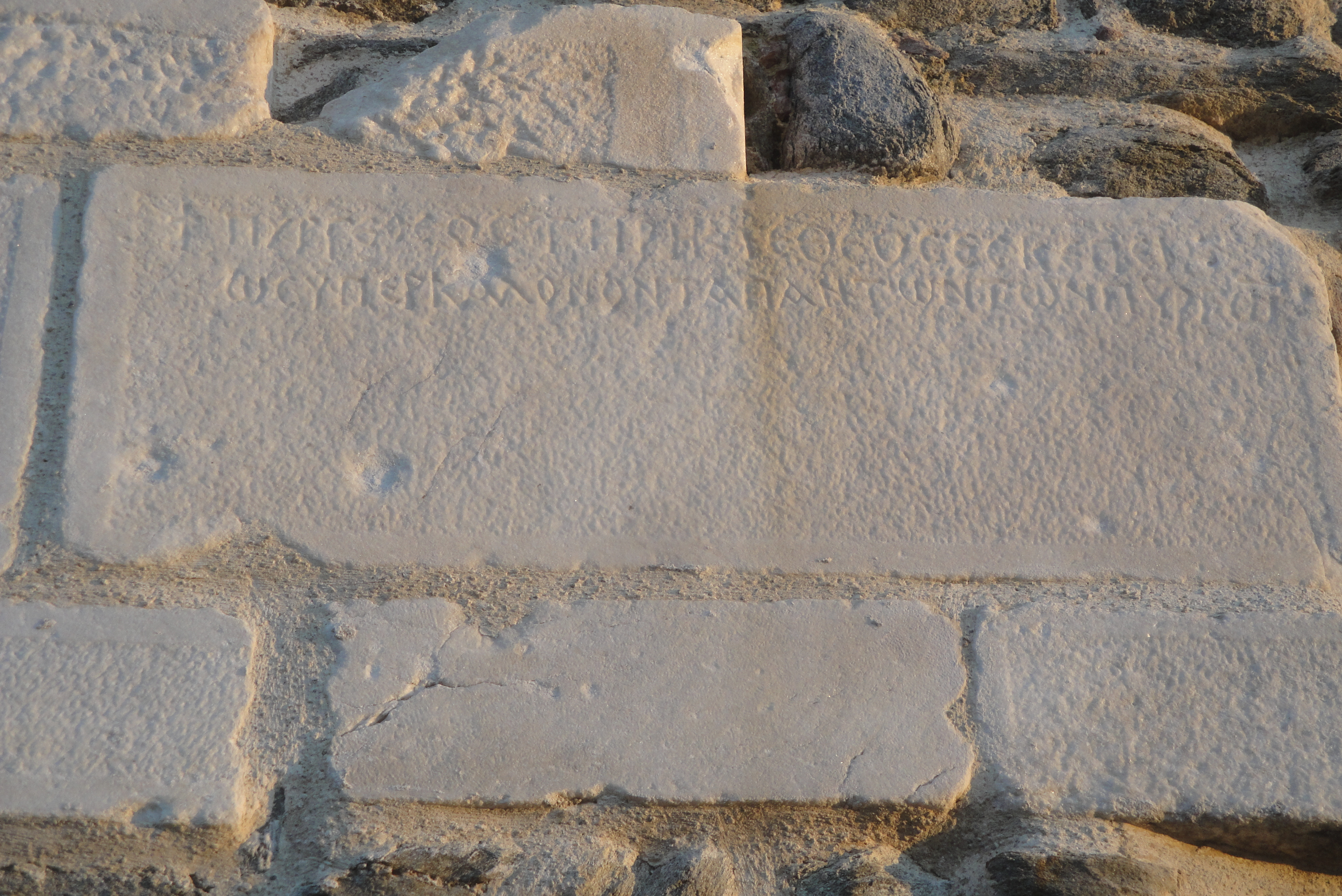 Greek - byzantine - inscription from a tower of the defensive walls of Christoupolis, 830 - 840 A.D.: ΠΥΡΓΕ ΘΕΟΣΤΗΡΙΚΤΕ ΘΕΟ(Σ) ΣΕ ΣΚΕΠΕΙ ΩΣ ΥΠΕΡΚΑΛΟΝ ΟΝΤΑ ΠΑΝΤΩΝ ΤΩΝ ΠΥΡΓΩ(Ν) - "TOWER SYPPORTED BY GOG, GOD IS GUARDING YOU, LIKE THE SYPREME TOWER OF ALL".